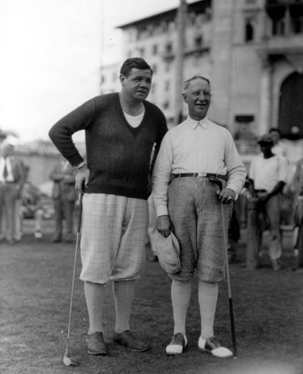 Babe Ruth and former NY Gov. Al Smith at the Biltmore Hotel and Country Club, Coral Gables, Fla. (1930).